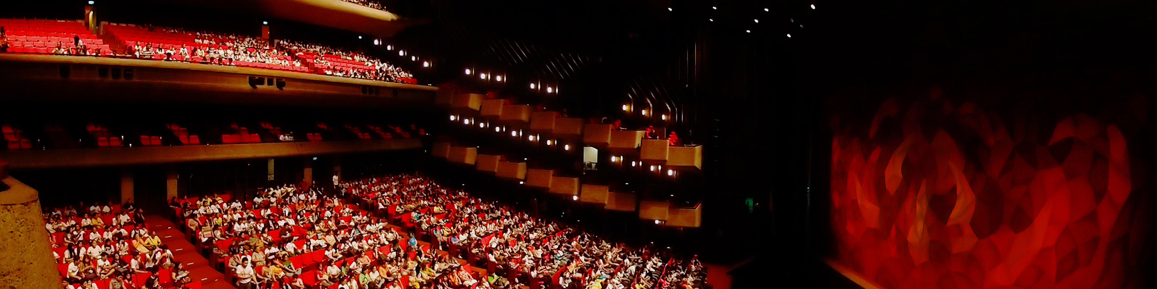 Main Theater of the Cultural Center of the Philippines. At the extreme right is the house curtain based on Genesis by Hernando Ocampo. Slightly visible on the upper left is the upper balcony.